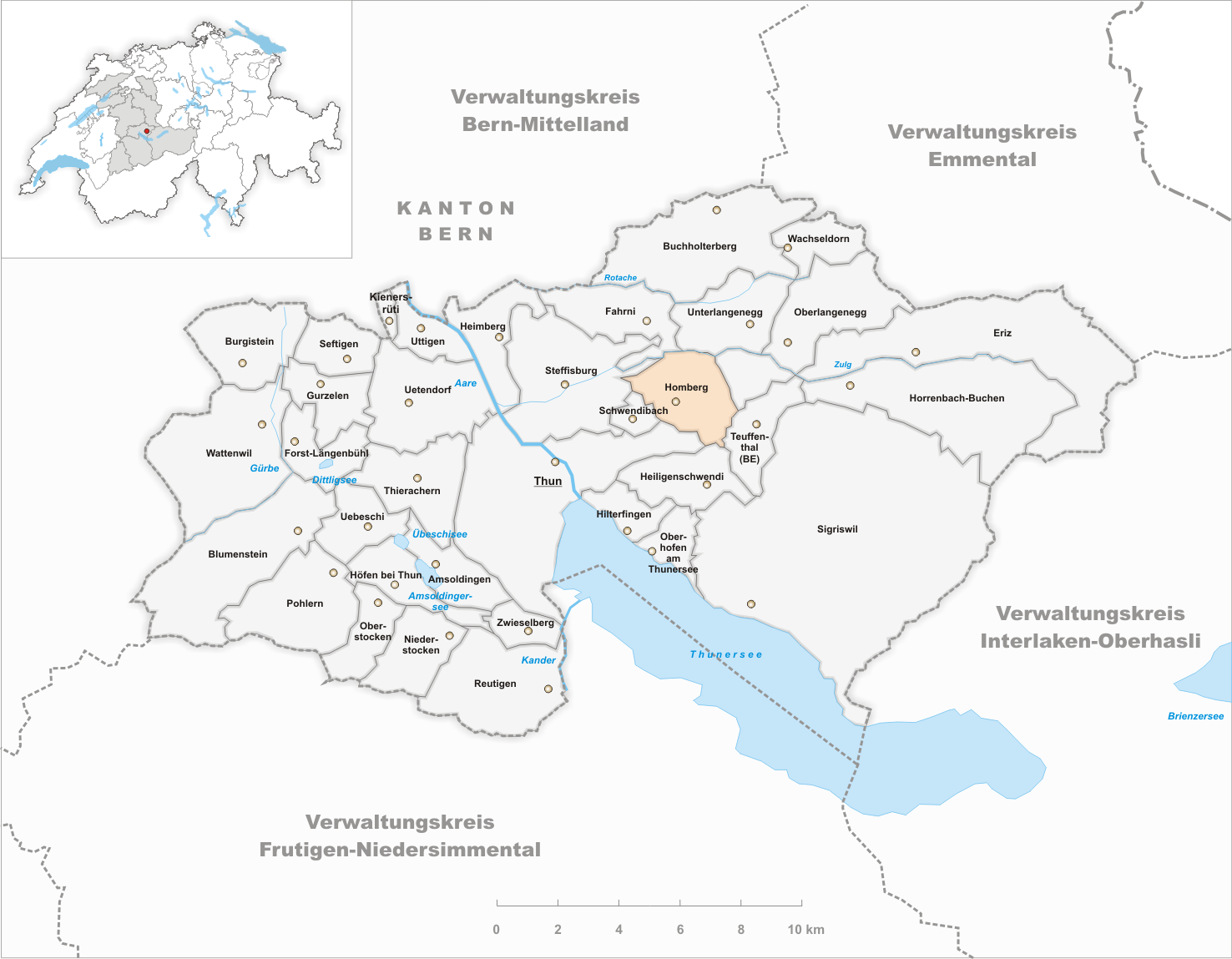 Municipality Homberg